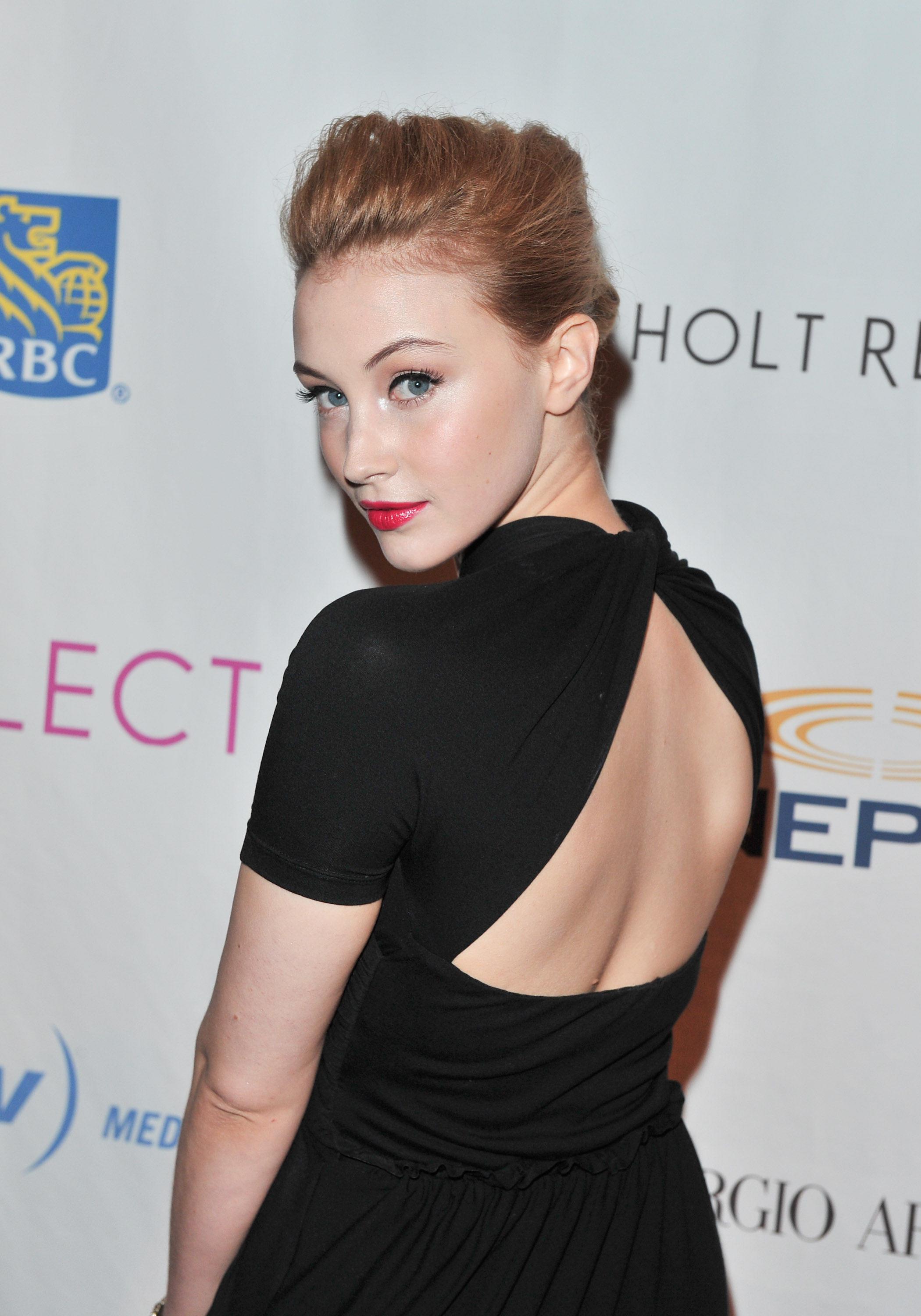 A Dangerous Method's Sarah Gadon at the 18th CFC Annual Gala & Auction. Gadon previously starred in the CFC feature film Siblings, and the short film Burgeon & Fade. To learn more about the CFC, please visit